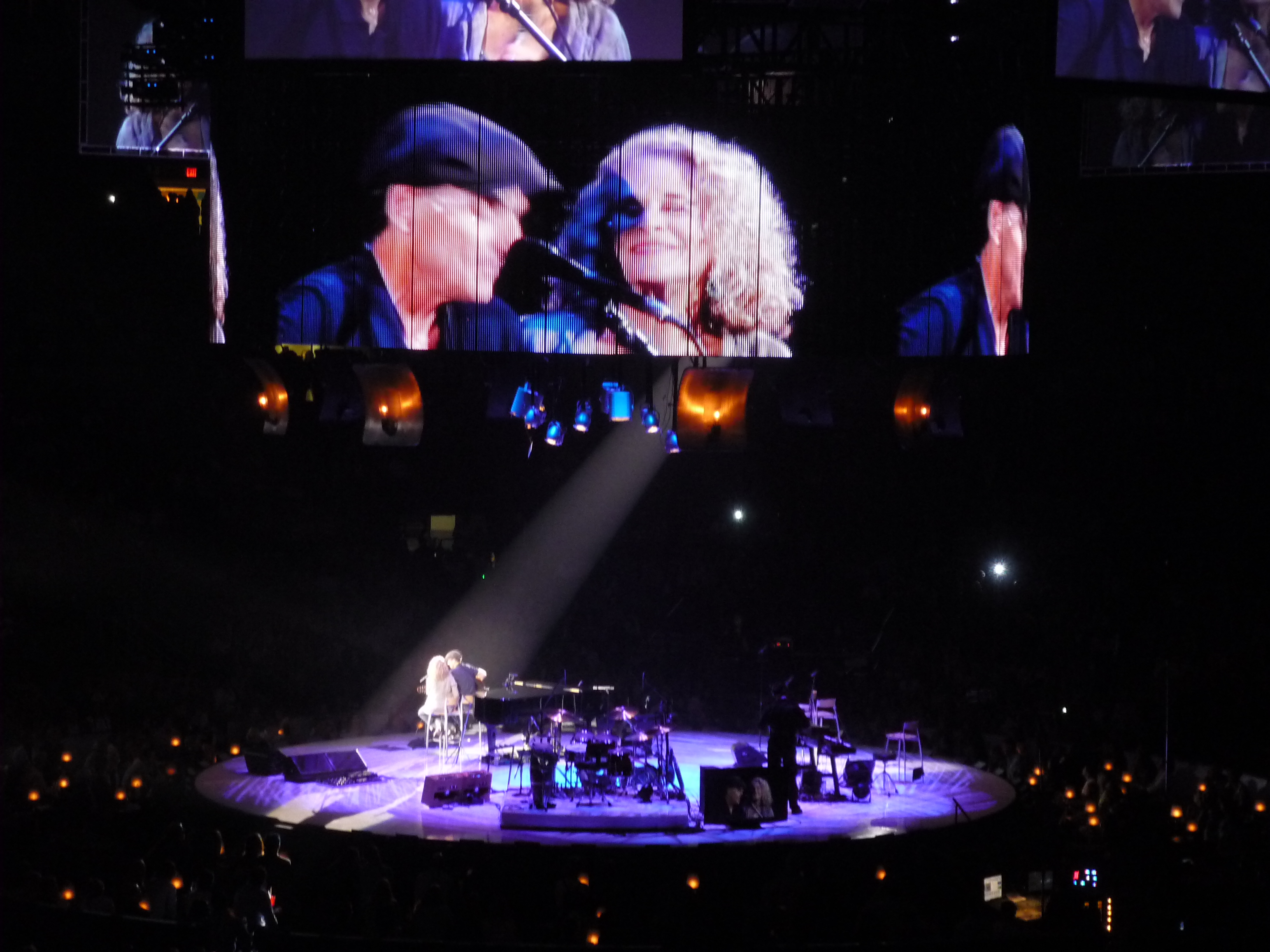 "You Can Close Your Eyes" being performed by James Taylor and Carole King, without any backing band, as the final encore during a Troubadour Reunion Tour show at Madison Square Garden in New York.